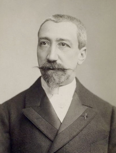 Anatole France early in his career, portrayed by Wilhelm Benque.